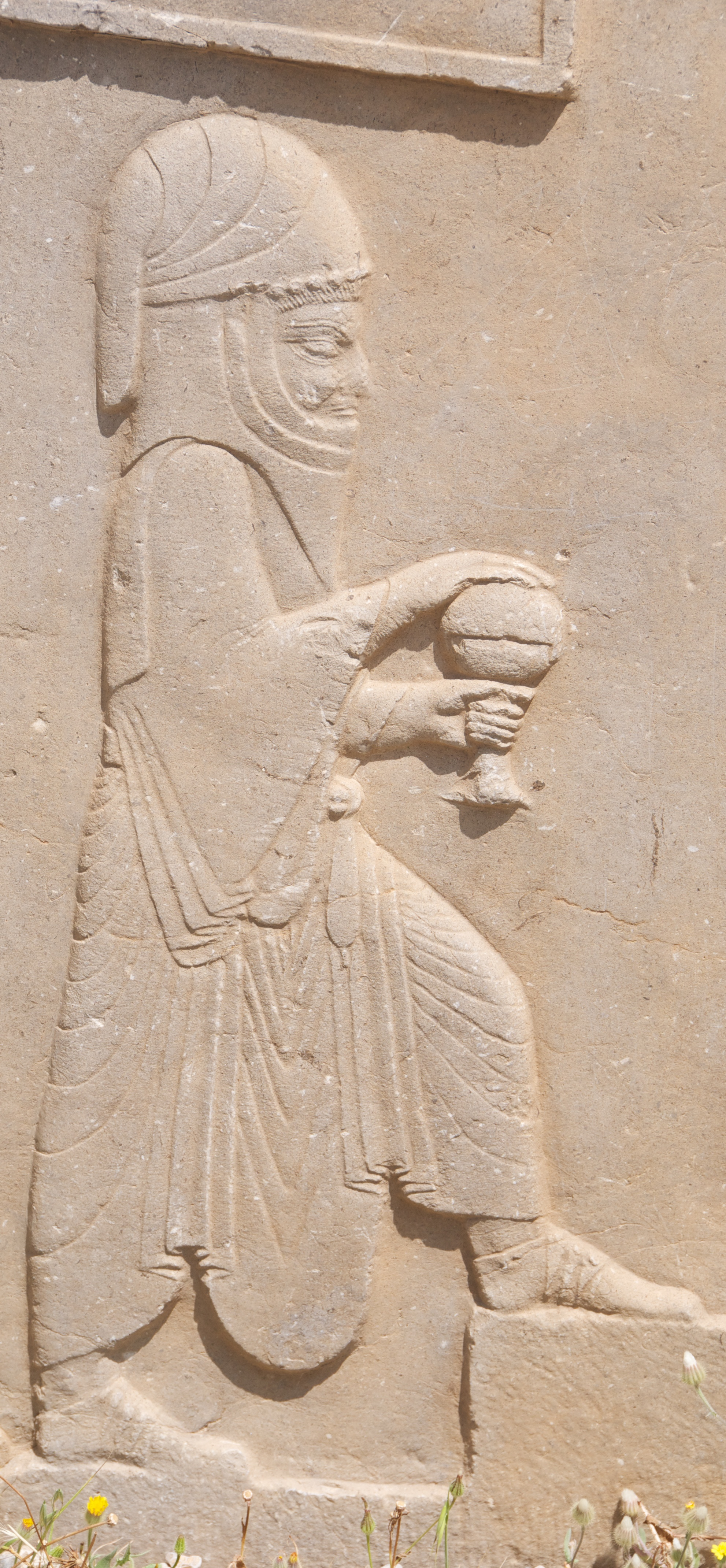 Bas Relief of Tribute Bearer, Persepolis, Iran